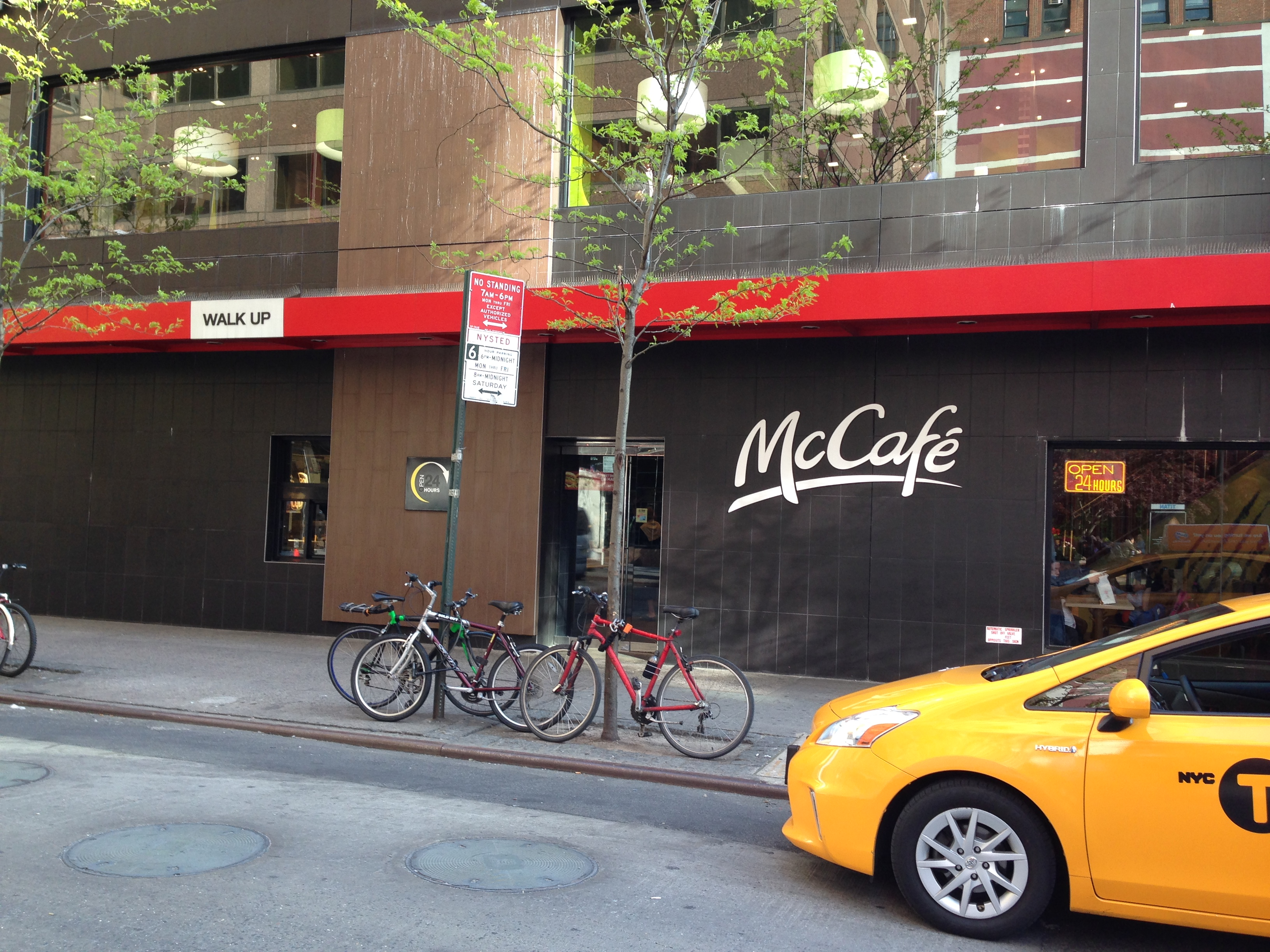 Walk-up window is offered at this McDonald's location in New York City instead of a typical drive-through.